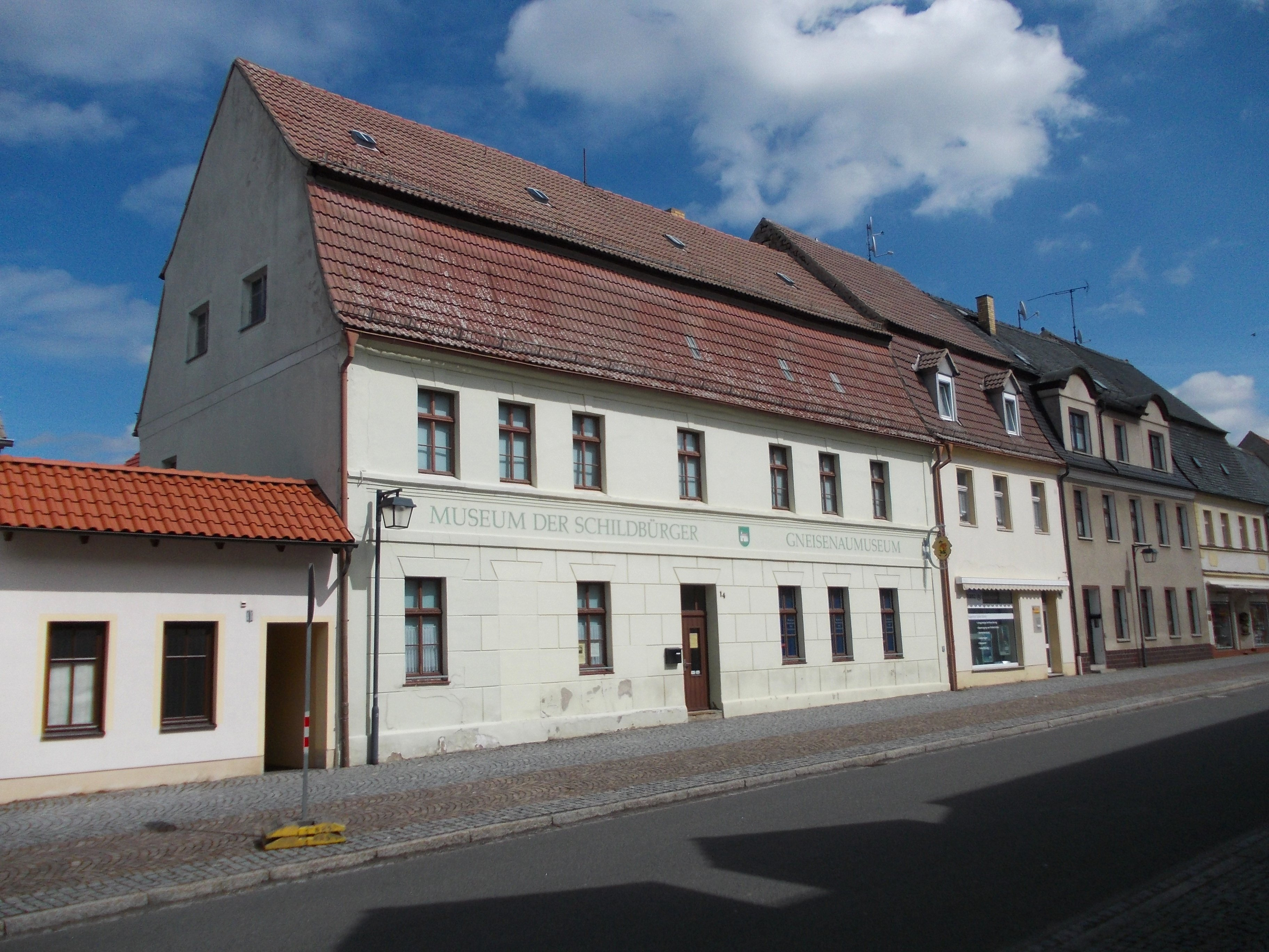 Museum in Schildau (Belgern-Schildau, Nordsachsen district, Saxony)